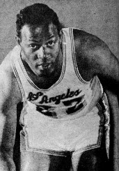 Professional basketball player Elgin Baylor